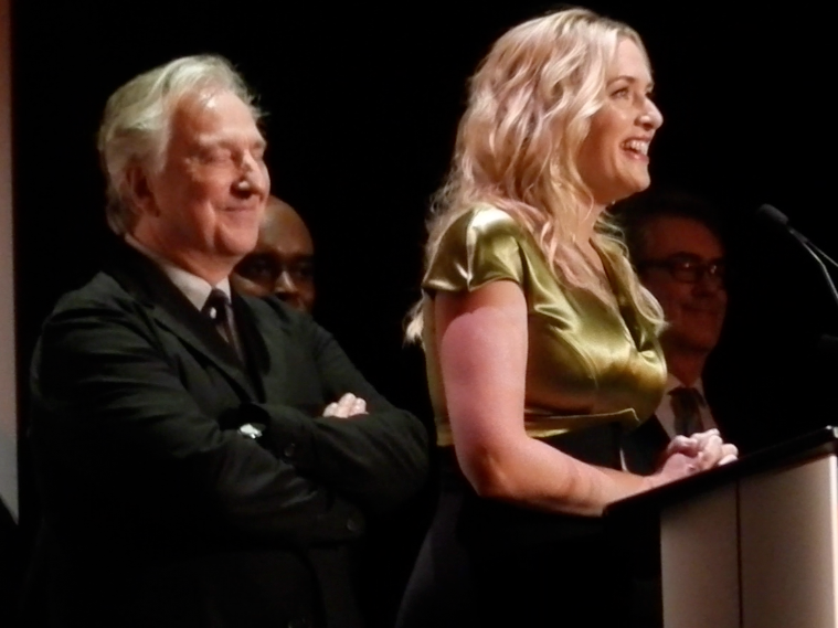 Kate Winslet, Alan Rickman at 2014 TIFF